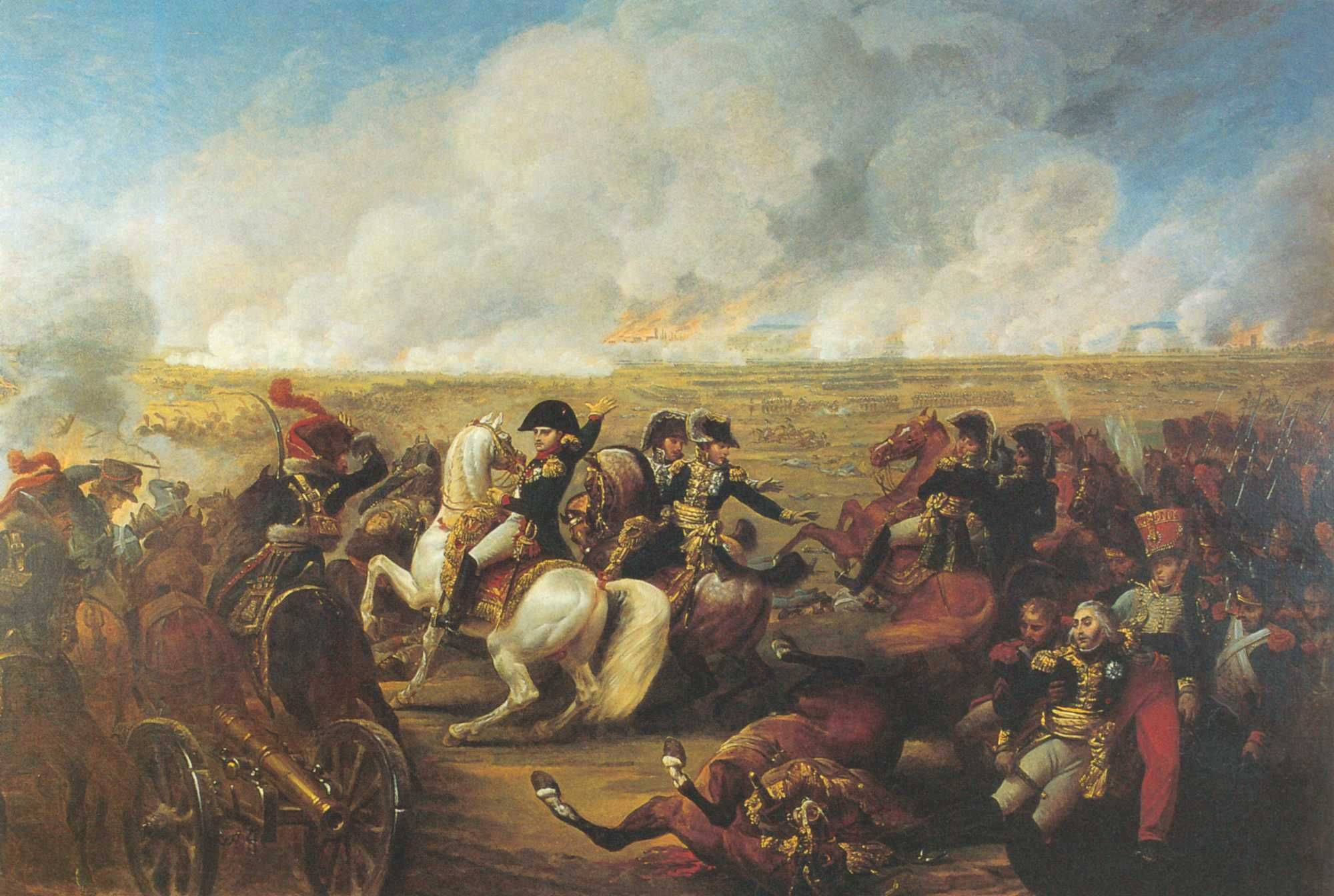 Battle of Wagram: July 6th 1809. Napoleon (left) orders his columns forward while an unconscious Marshal Bessières (right), presumed dead, is brought behind the battle line.